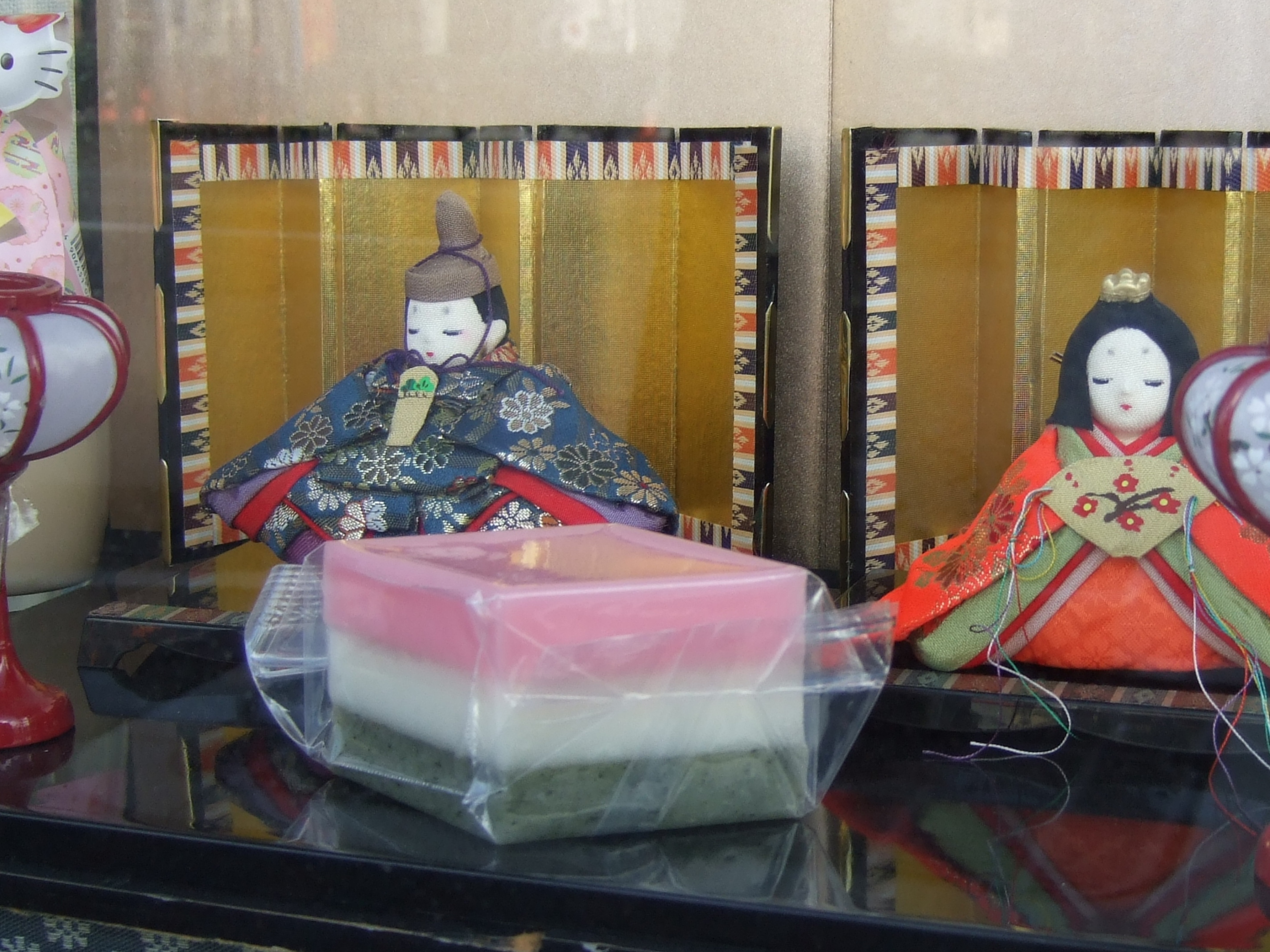 Hishimochi (diamond-shaped rice cake)